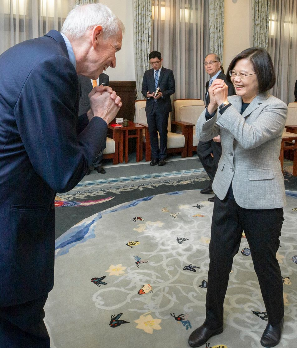 Taiwan-president Tsai Ing-wen showing social dinstancing by using a traditional Chinese greeting (拱手) instead of a hand-shake in response to the COVID-19 pandemic Official Photo by Mori / Office of the President